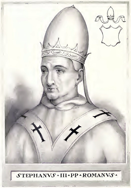 This illustration is from The Lives and Times of the Popes by Chevalier Artaud de Montor, New York: The Catholic Publication Society of America, 1911. It was originally published in 1842. Before Pope-elect Stephen was removed from most lists of popes, Stephen II was referred to as Stephen II.